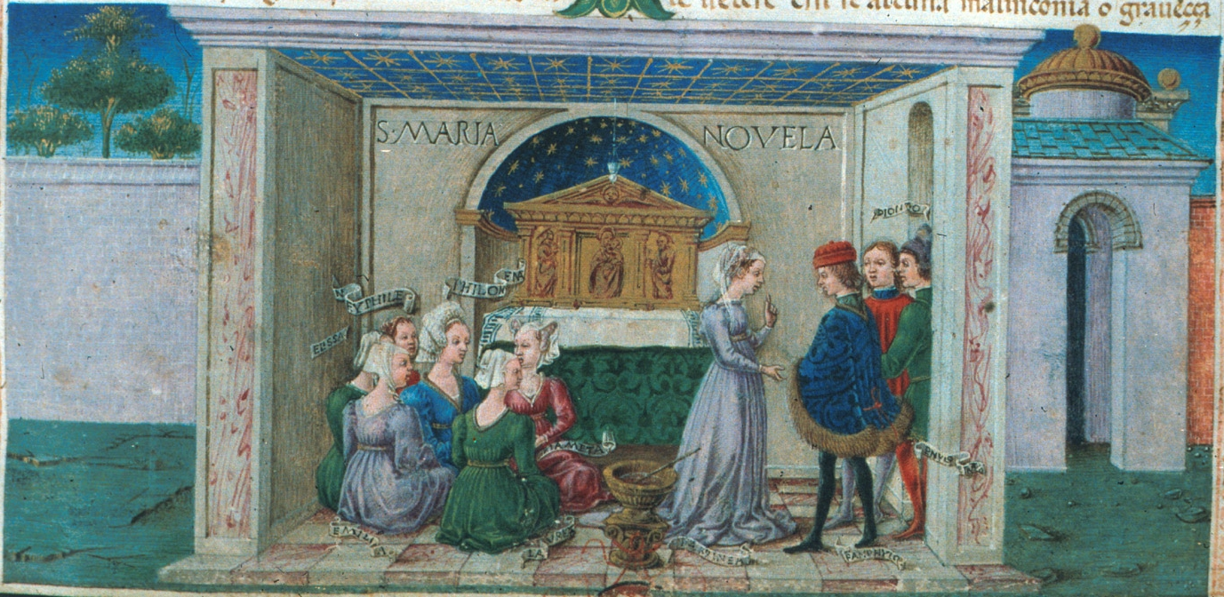 The narrators of the Decameron, from Bodleian Library MS Holkham misc. 49 f 5r